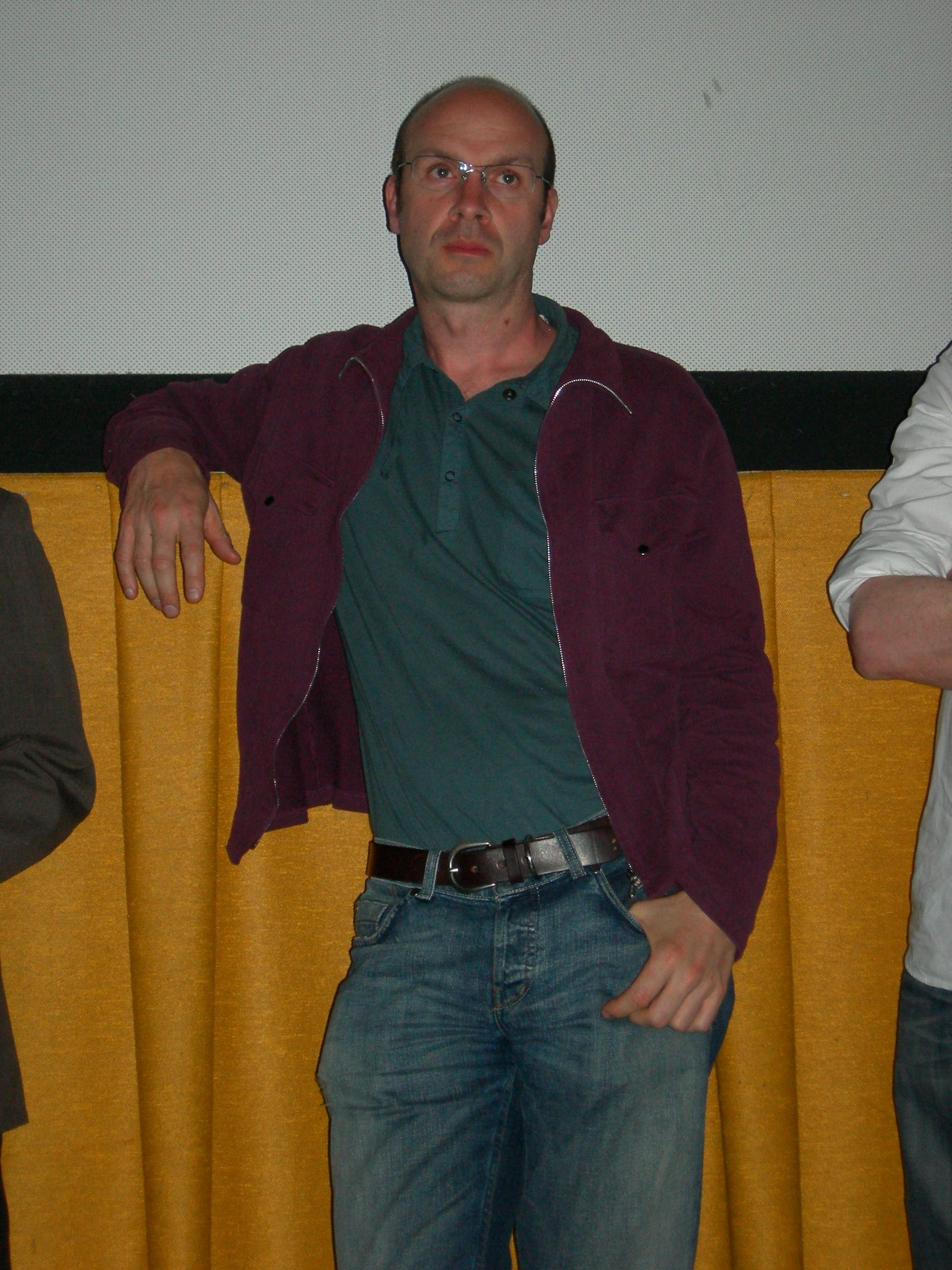 Photographer Charles Peterson, at the Neptune Theater during the 2007 Seattle International Film Festival, after the film Kurt Cobain: About a Son, which utilized several of his photographs.